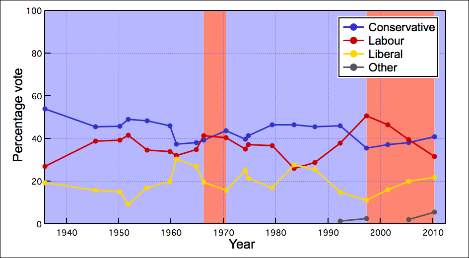 Election results for High Peak constituency from 1935 to the 2010 general election. Notes The Background colour indicates the party of the sitting MP at any given year. The 1935 by-election does not appear on this graph as the Conservative candidate was elected unopposed. Statistics gathered from: Parties: Conservative = Conservative and Liberal Unionist (1935–1959); Conservative Party (UK) (1964–present). Labour = Labour Party (UK) Liberal = Liberal Party (UK) (1935–1979); SDP-Liberal Alliance (1983–1987); Liberal Democrats (UK) (1992–present).